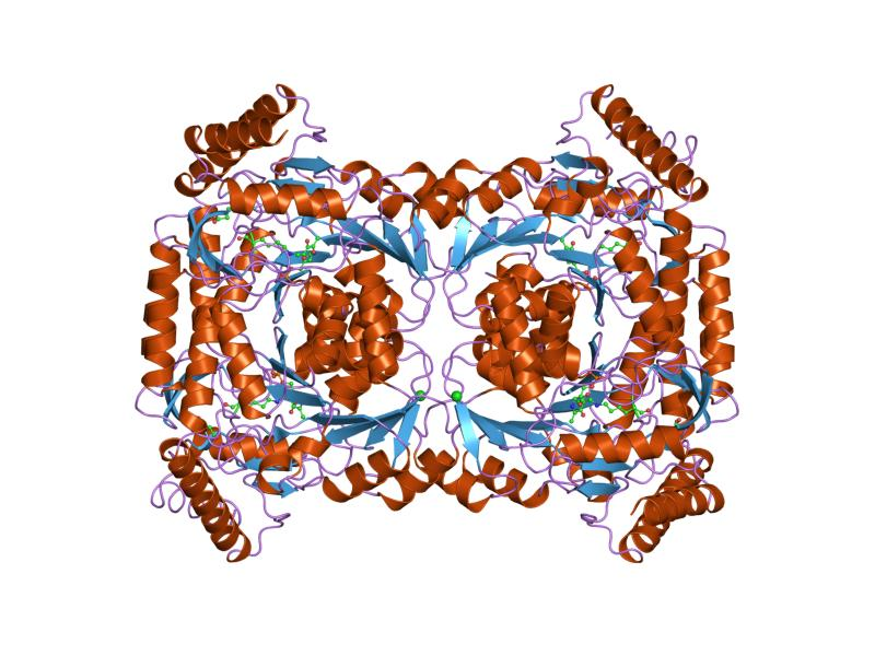 Cartoon representation of the molecular structure of protein registered with 2bwn code.